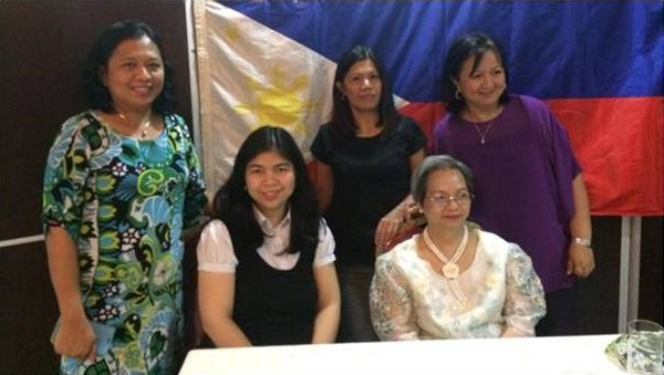 Ambassador Belen F. Anota (second from right) and Consul Grace Bulos with the Filipino community in Nauru led by Lilibeth Utanes (left)